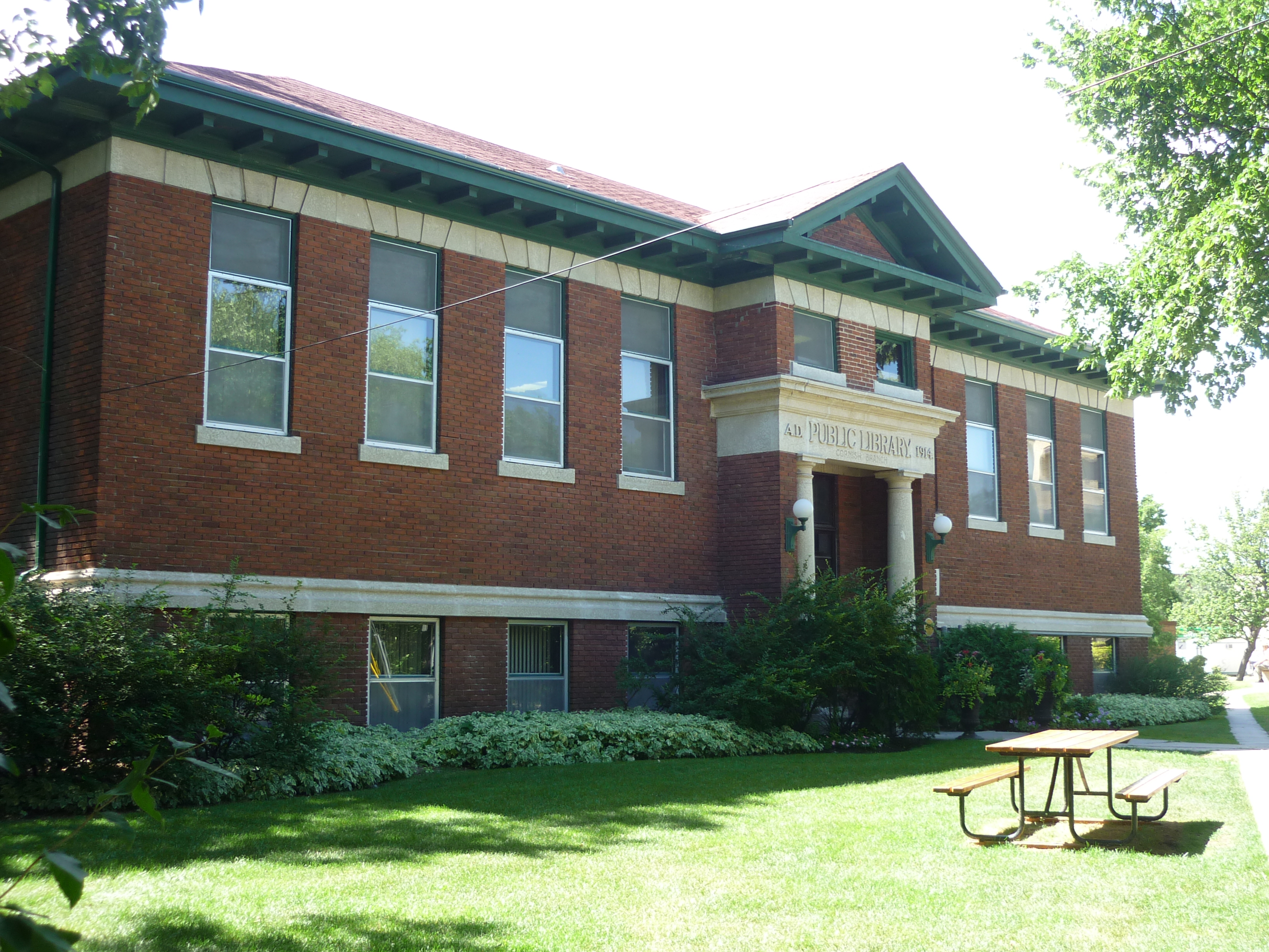 This is a picture of the front of the Cornish Library. It shows the front of the building, as well as some of the front yard. Other information Please attribute as @qwekiop147.